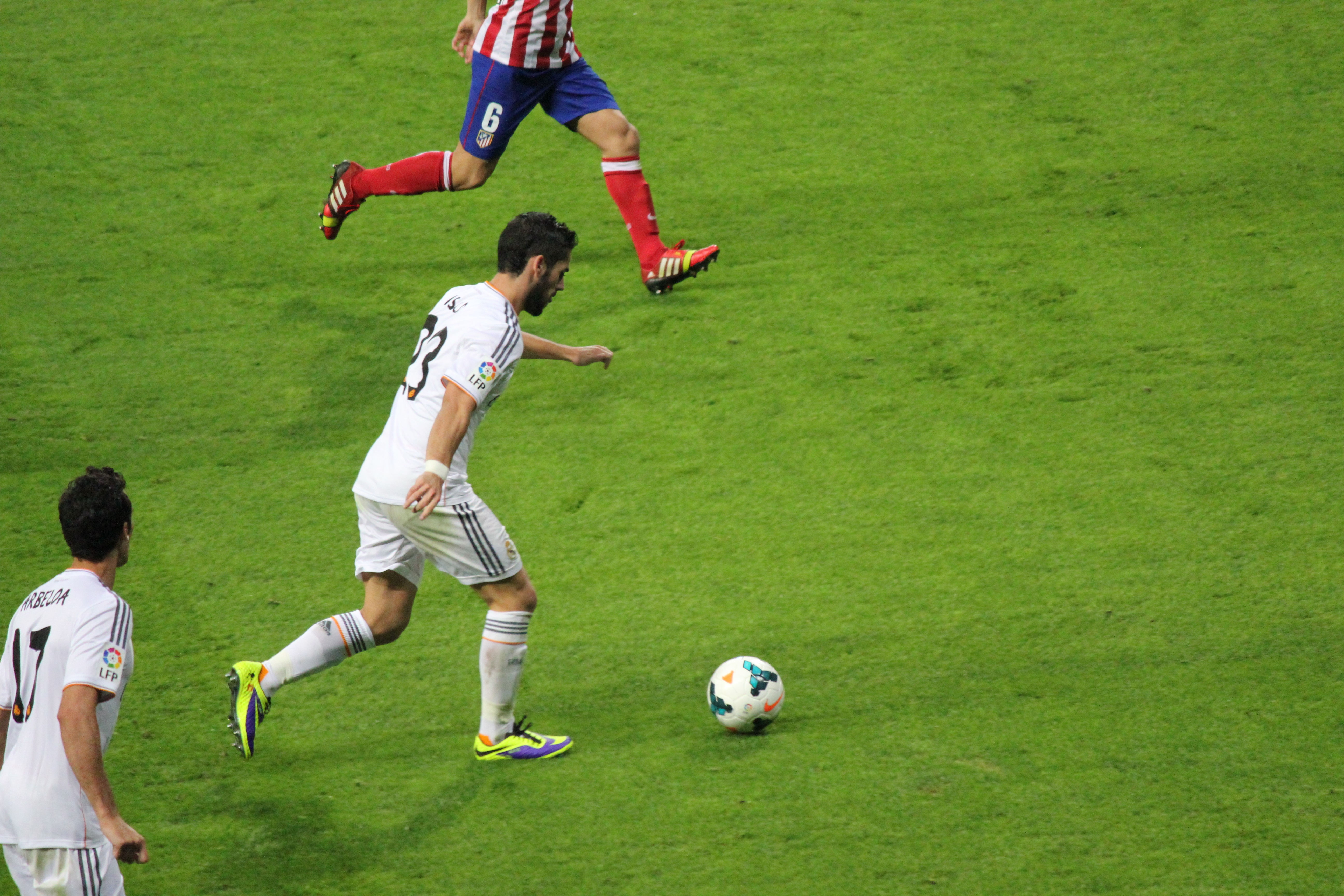 Isco playing for Real Madrid against Atlético Madrid on 28 September 2012 at a home game for Real Madrid.